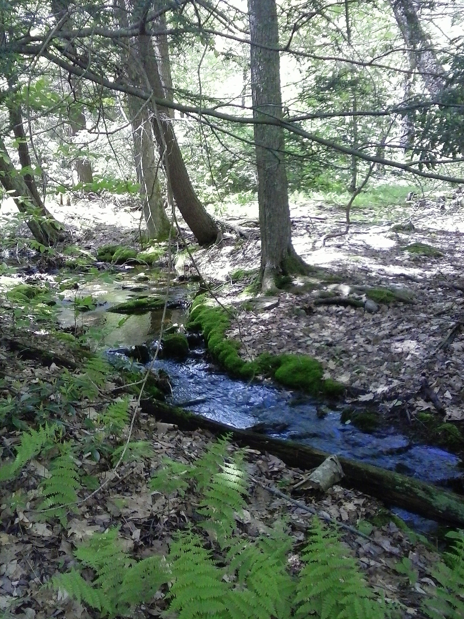 Headwaters of Maple Spring Brook from the Old Beaver Dam Road trail in Ricketts Glen State Park.